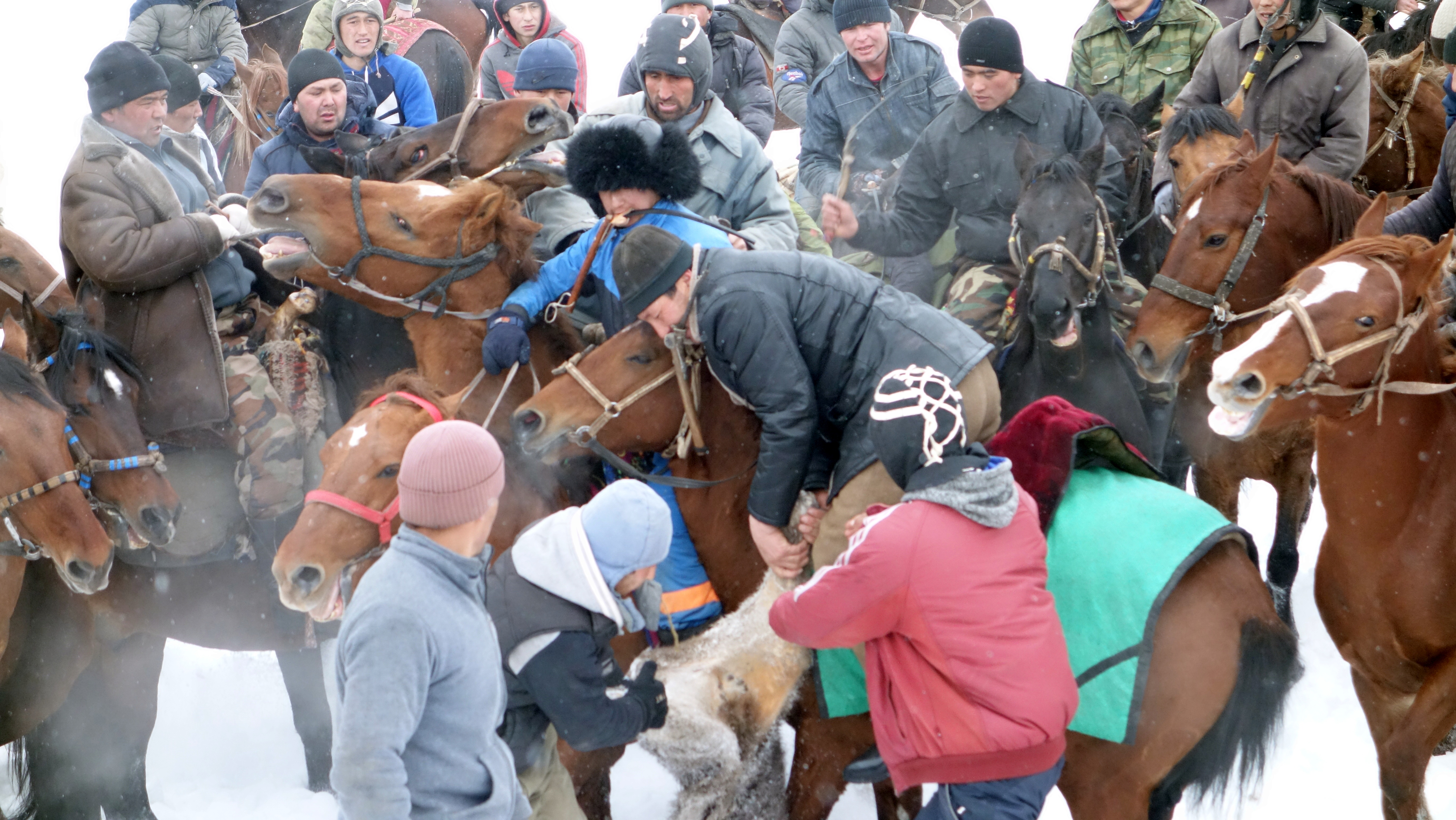 Buzkashi or Ulak tartysh players in Jerge-Tal Kyrgyz district of Tajikstan, 2017